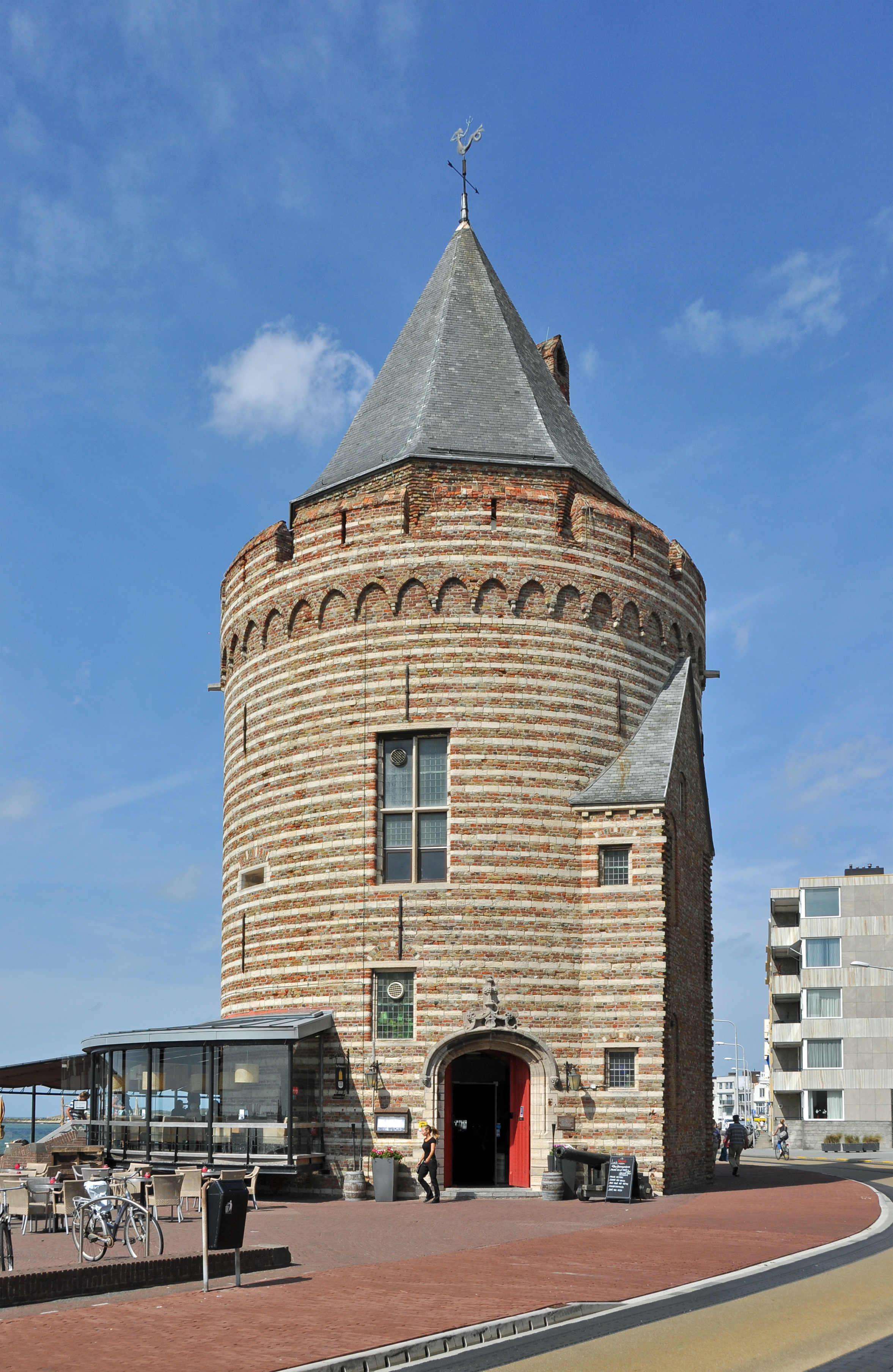 Vlissingen (the Netherlands): the Gevangenpoort or West Gate